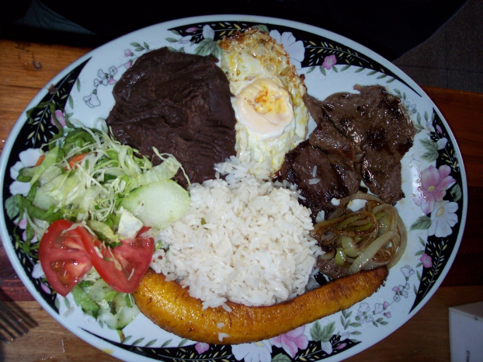 A Costa Rican lunch, called casado. Comes with rice, fried plantain, onioned meat (chicken or beef), an egg, beans and a cabbage salad sprinkled with lemon juice and salt.